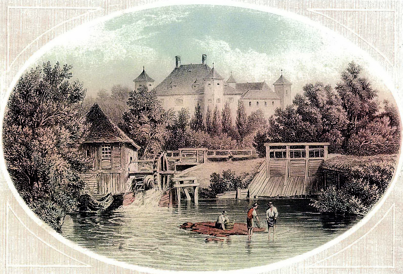 Mill on the Glan river close to the castle Welzenegg in the 10th district Saint Peter of the Carinthian capital of Klagenfurt in Carinthia / Austria / European Union.